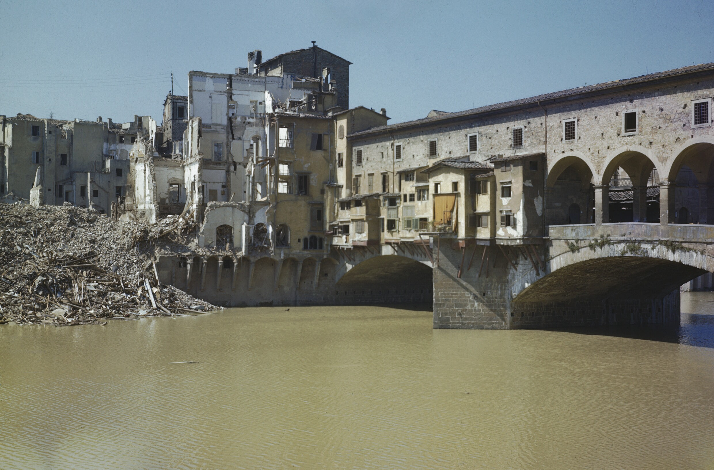 Scenes in Florence, Italy, 14 August 1944 View of damage to the Ponte Vecchio from the east. The Germans destroyed all of the bridges over the River Arno with exception of the Ponte Vecchio before evacuating Florence on 11 August 1944. The Ponte Vecchio was blocked by demolishing the houses on both ends and mining the bridge.